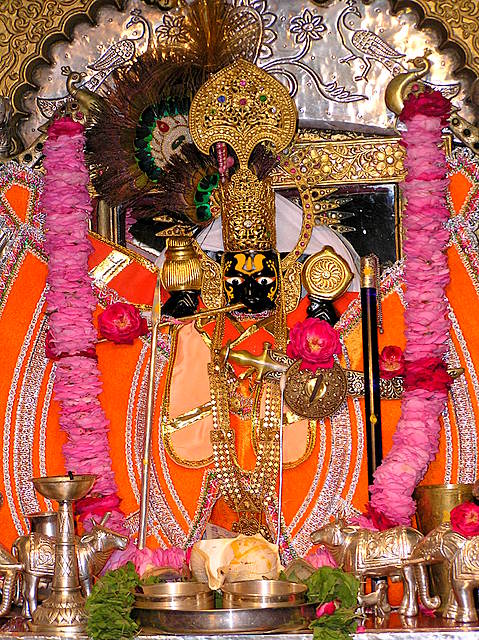 Photo of Shri Sanwaliaji at Rajasthan